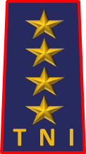 Air Chief Marshal rank insignia that used on daily uniforms of Indonesian Air Force (holder of command)